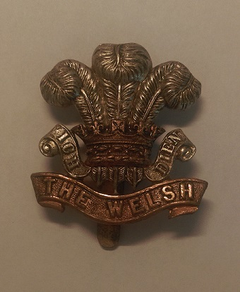 Photo of Welsh Regiment Cap Badge from personal collection